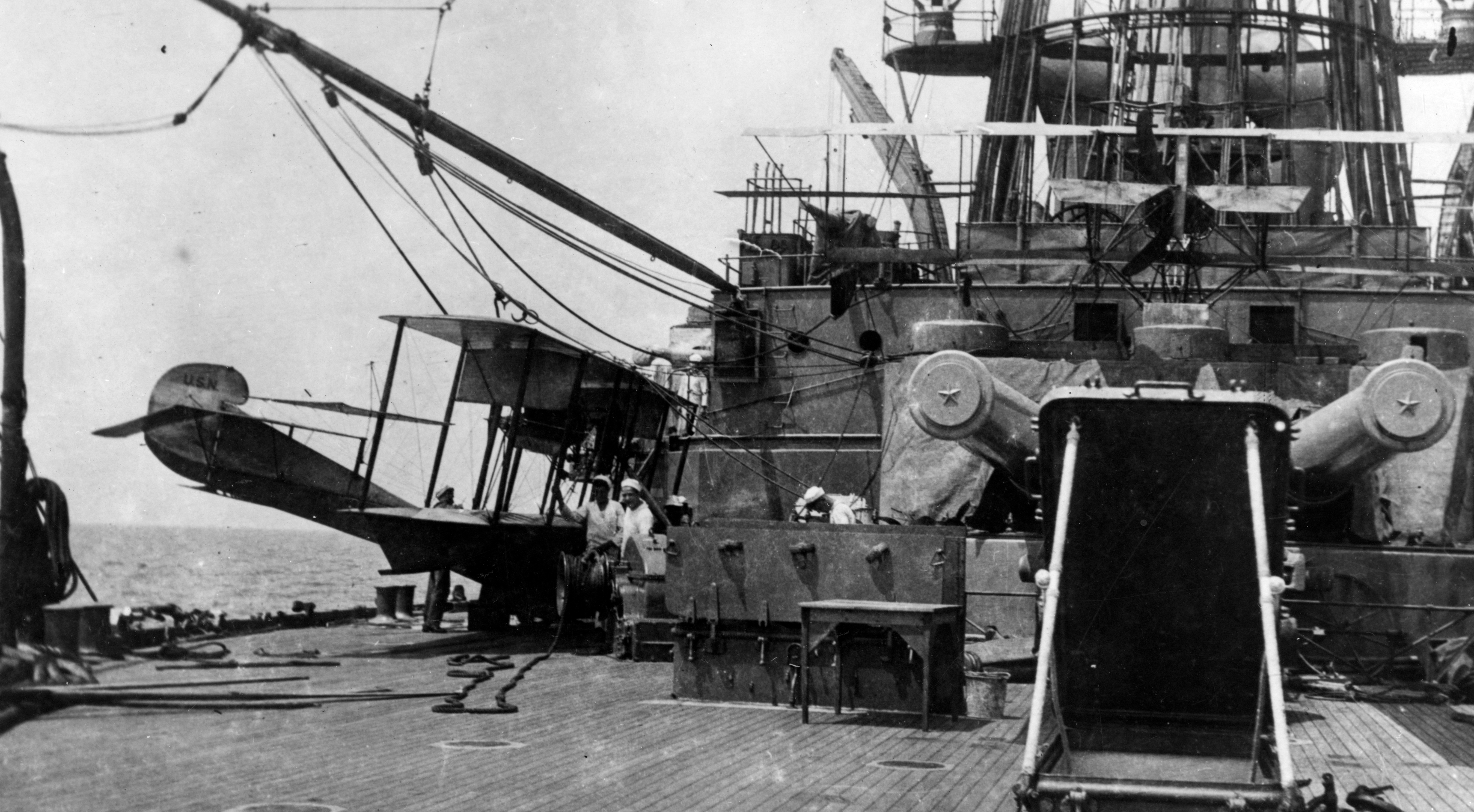 USS Mississippi (BB-23) View on the ship's afterdeck, while she was carrying the Navy's first combat air group to Vera Cruz, Mexico, in April 1914. Planes visible include a Curtiss "AB" type flying boat (on deck at left), and a Curtiss "AH" type floatplane (atop the after 12"/45 gun turret).